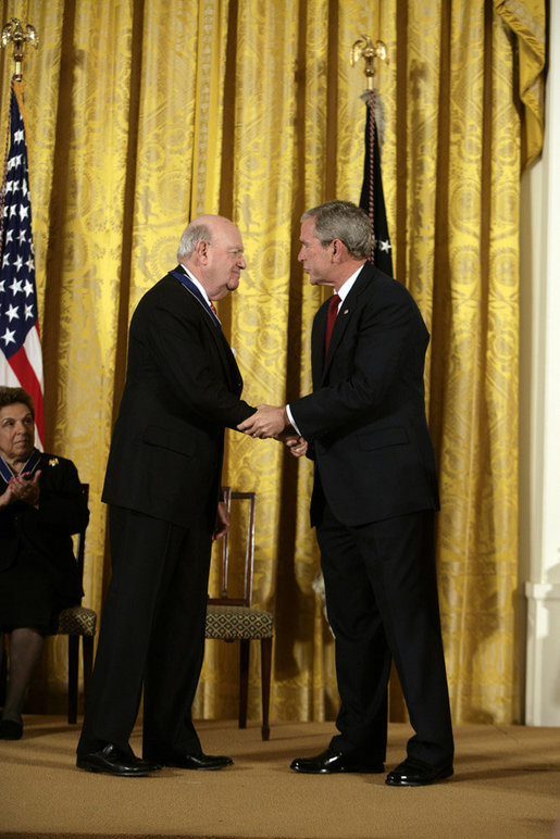 President George W. Bush shakes hands with Laurence Silberman after presenting him with the Presidential Medal of Freedom Thursday, June 19, 2008, during the Presidential Medal of Freedom ceremony in the East Room at the White House. White House photo by David Bohrer